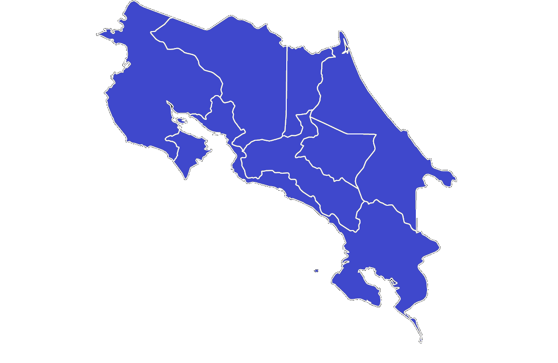 Resultados electorales provinciales 1990, fuente